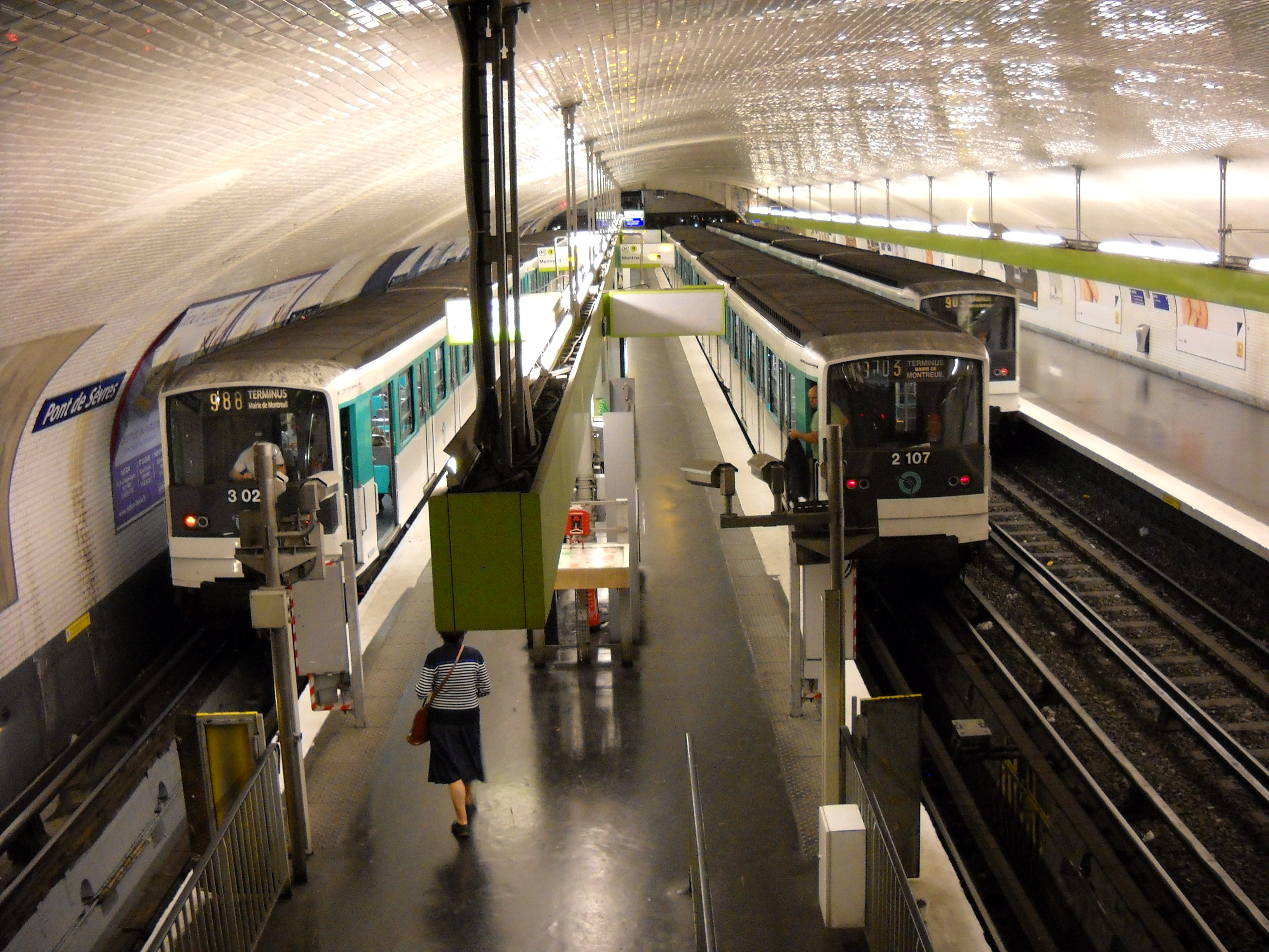 Pont de Sèvres station, on Paris metro line 9.